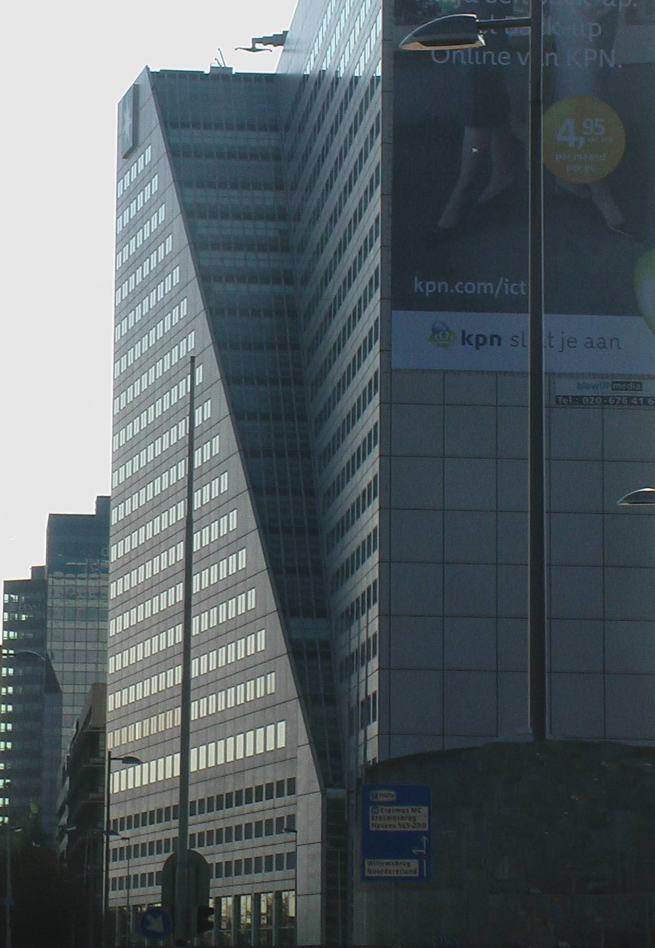 Willemswerf, a building in Rotterdam, The Netherlands. This building is used by Jackie Chan in the Hong Kong movie "Who Am I" (1998).